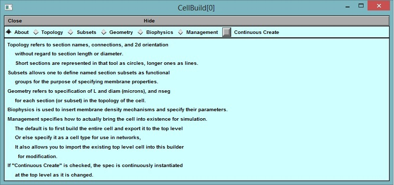 It is a screenshot of a menu in the GUI of Neuron. It shows the cell builder module, with which individual cells with complex properties can be created.